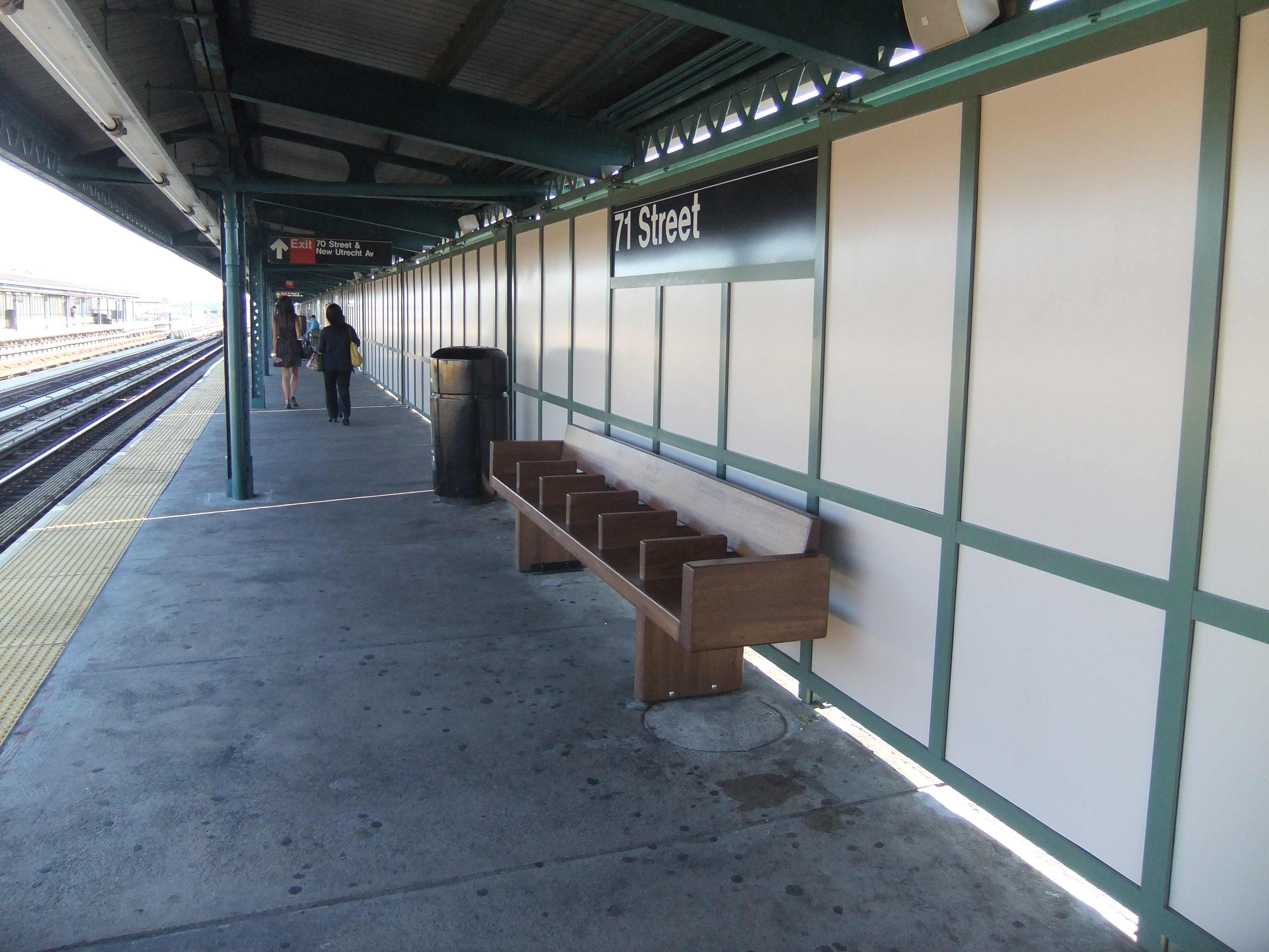 Uptown platform at the 71st Street BMT station.